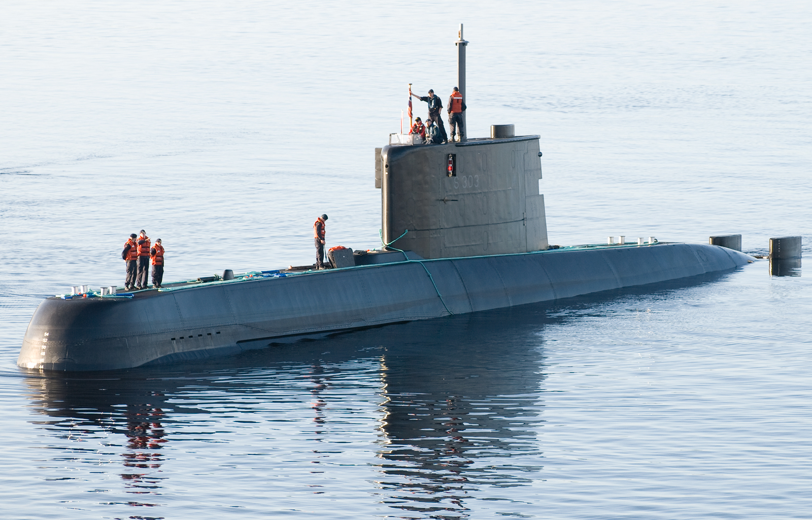 KNM Utvær (S303) at Leith Docks